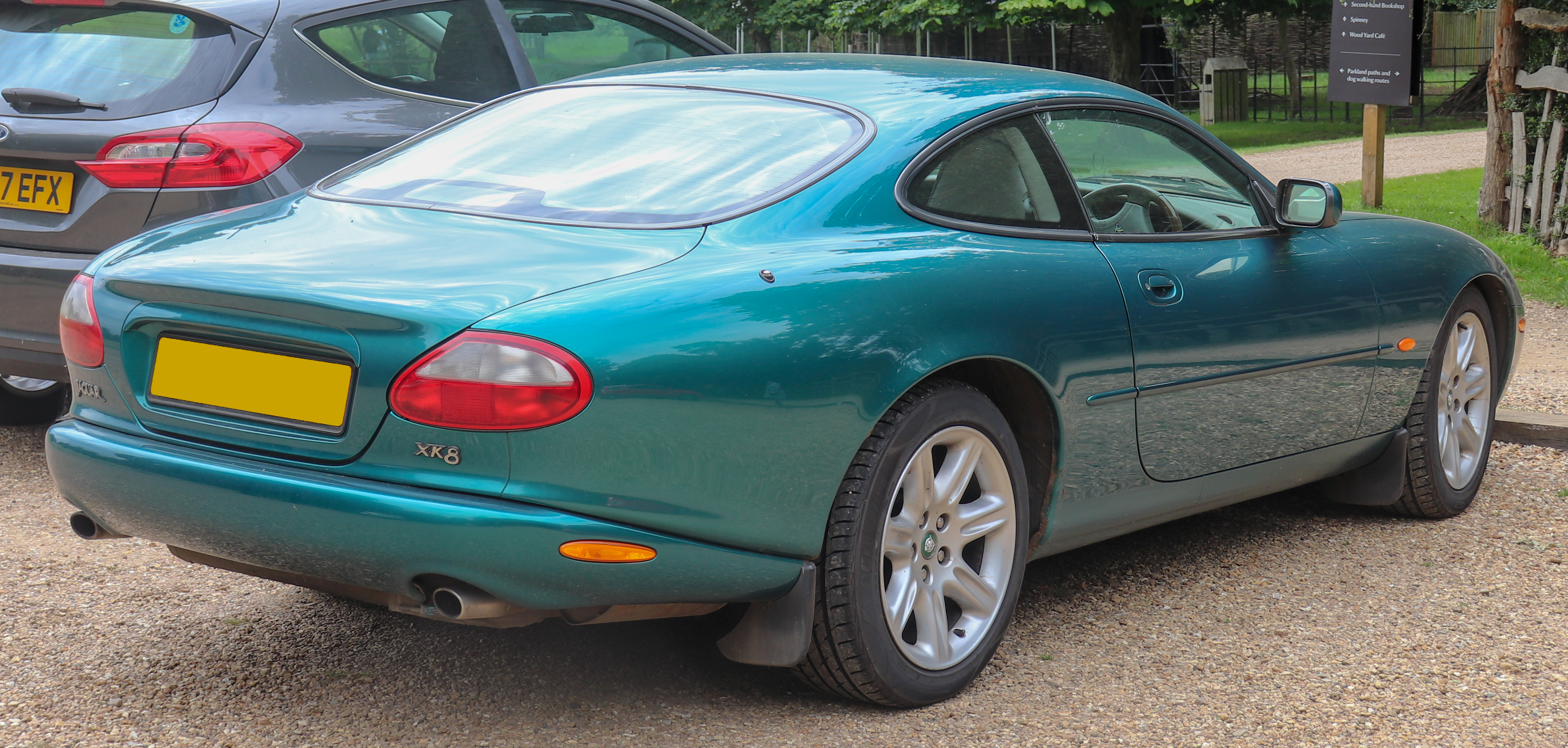 1997 Jaguar XK8 Coupe Automatic 4.0 Rear Taken in Charlecote Park